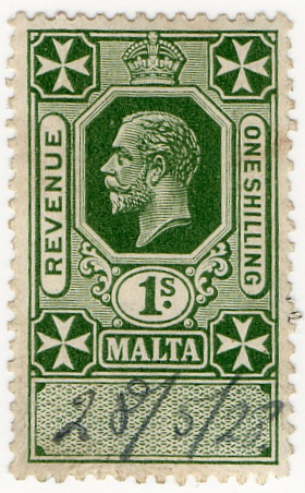 1925 1s revenue stamp of Malta used 1928